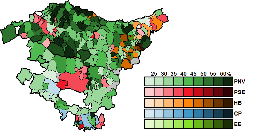 Most-voted party in Basque Country municipalities, showing vote share obtained, in the Spanish general election, 1986.